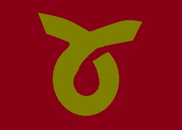 Flag of Tosa Kochi